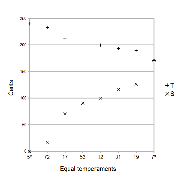 Chart of the size of T and S in various equal temperaments. X=temperaments, Y=cents.